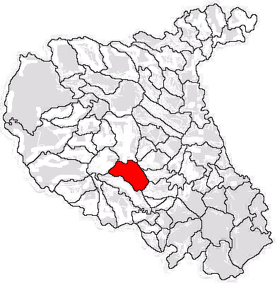 Map of limits of commune in Vrancea County